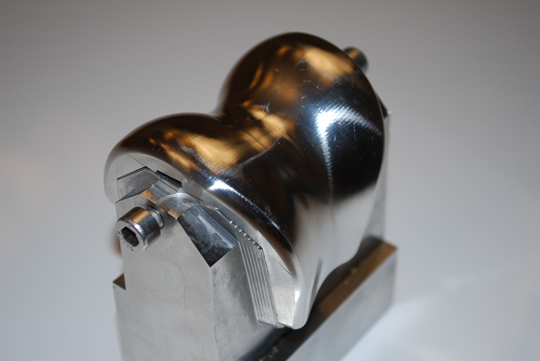 Knee prosthesis, manufactured using WorkNC CAM software from Sescoi